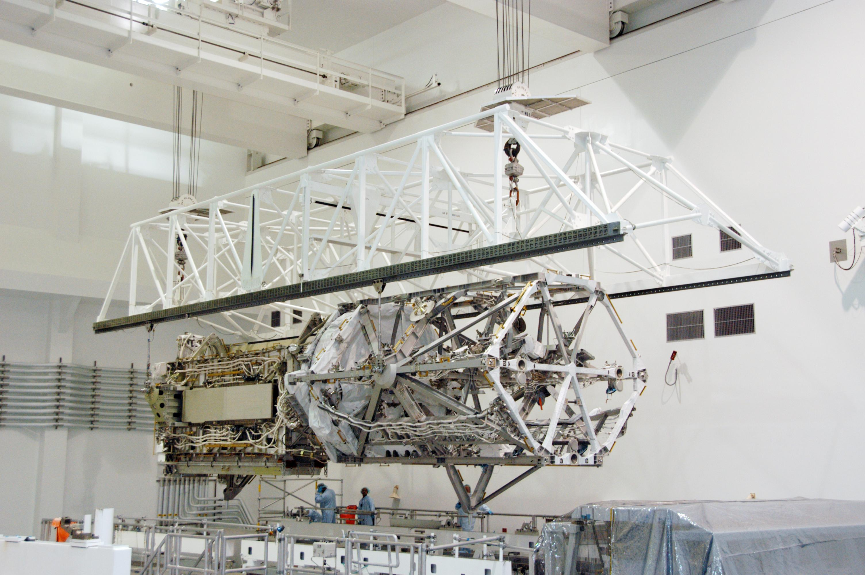 In the Space Station Processing Facility, an overhead crane lifts the S3/S4 integrated truss from its workstand in order to move it to the payload canister